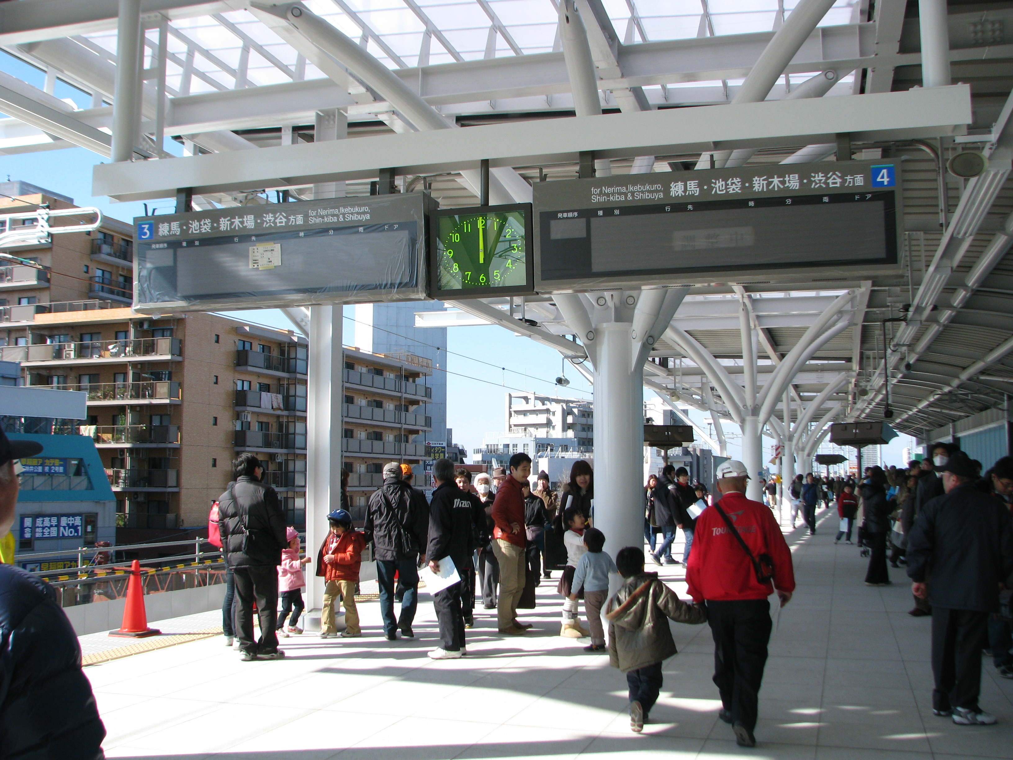 Shakujii-koen Station